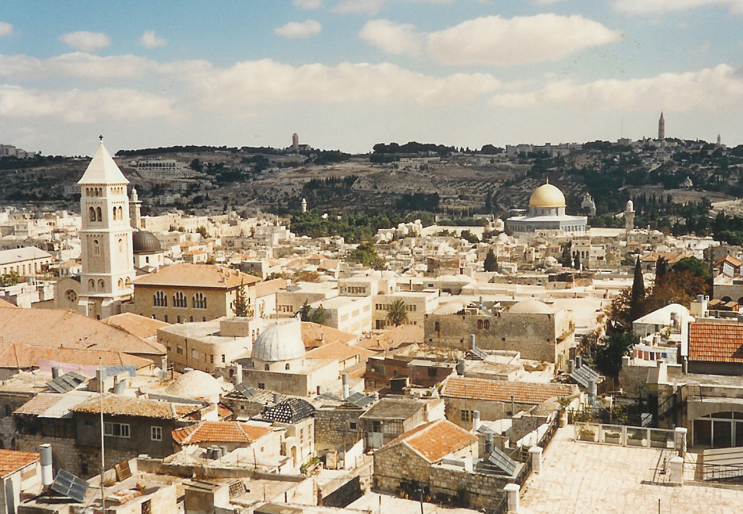 Israel, Old Jerusalem, view from Tower of David